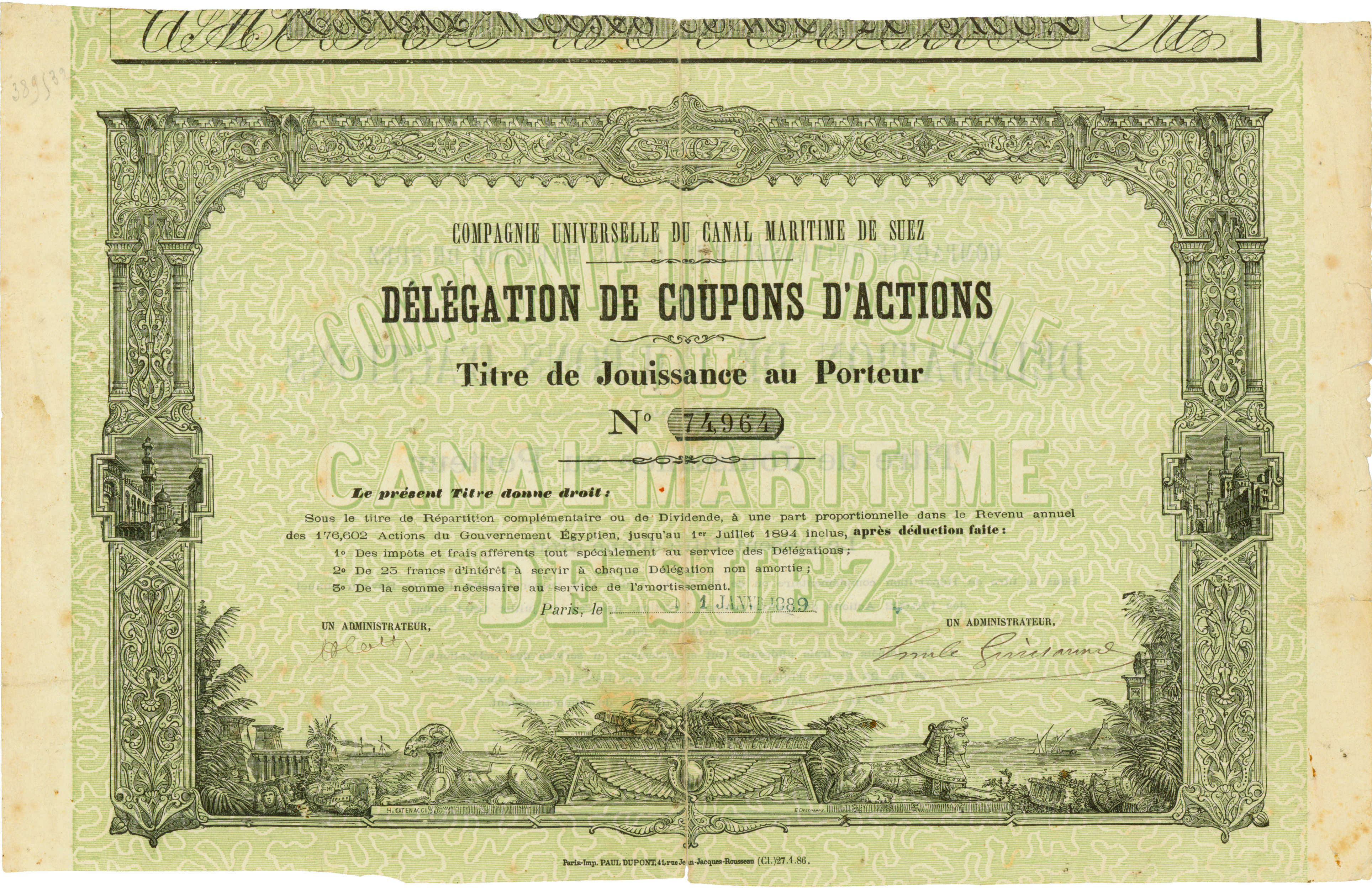 Participating certificate of the Compagnie Universelle du Canal Maritime de Suez, issued 1. January 1889; designed by H. Catenacci, he signed in the plate